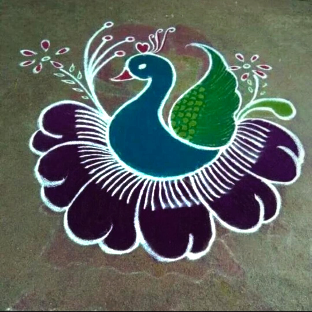 peacock rangoli